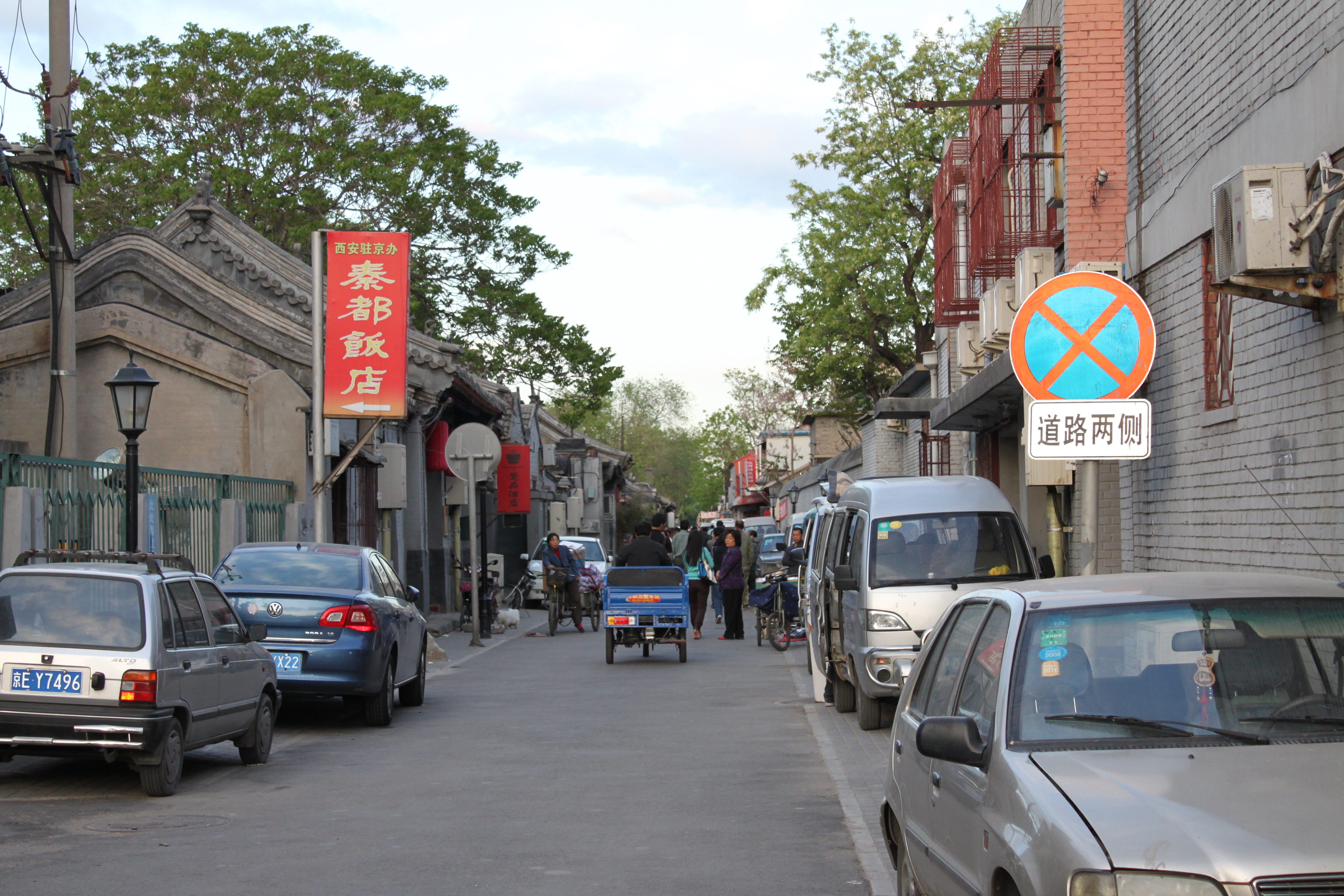 A Beijing hutong.正觉胡同